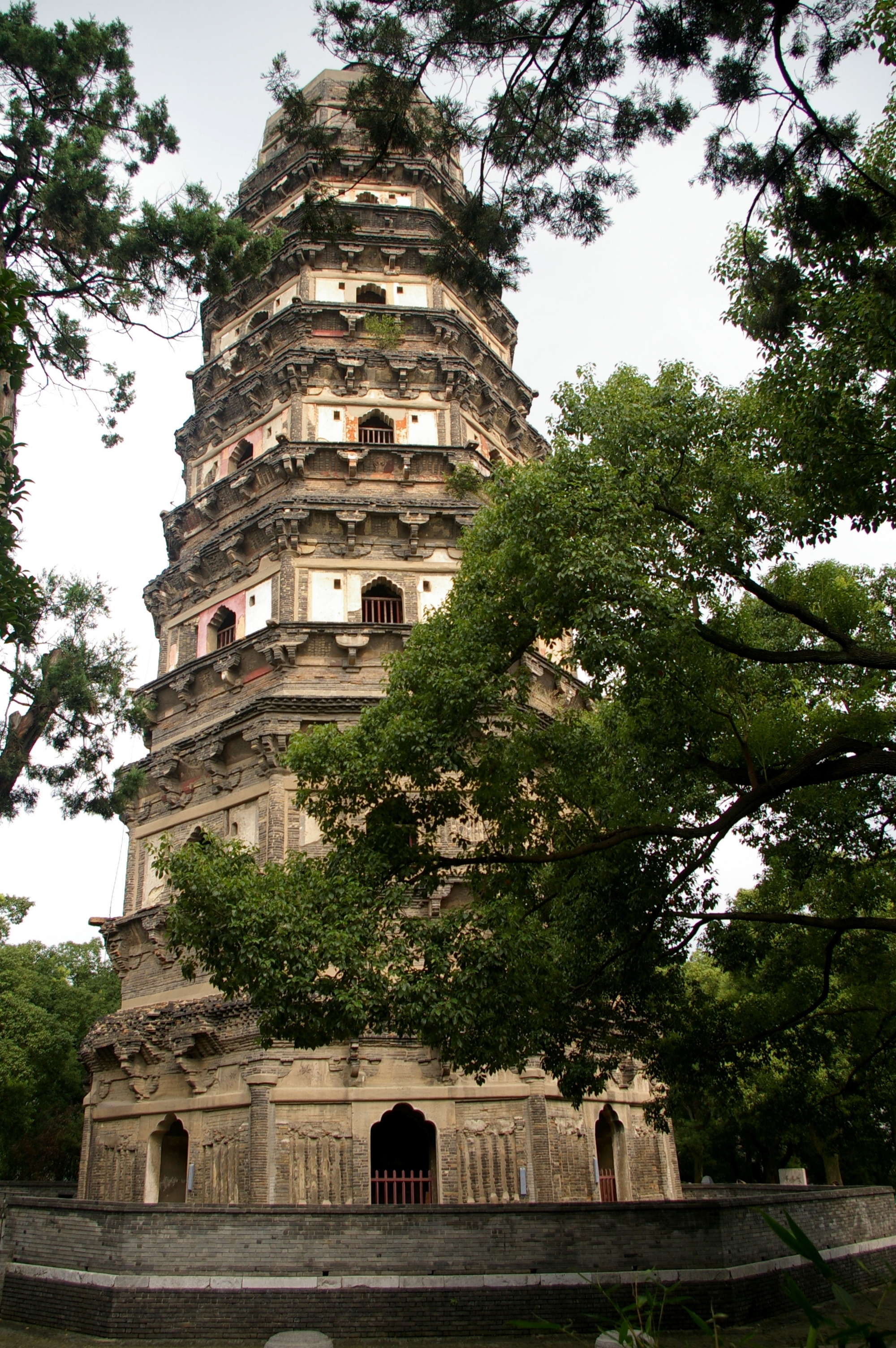 Yunyan Pagoda in Suzhou